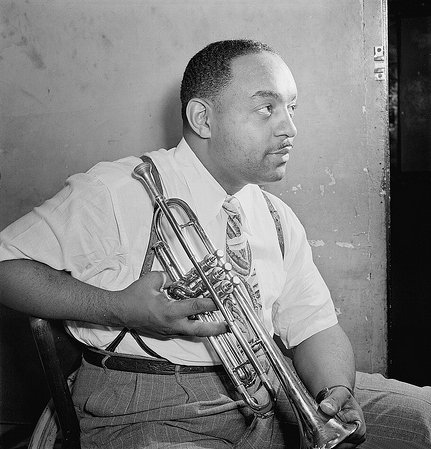 Benny Carter at The Apollo Theater, ca. Oct. 1946 (photographed by William Gottlieb)